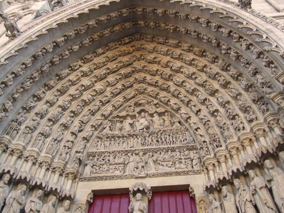 Amiens Cathedral (Cathédrale Notre-Dame d'Amiens), France - The Last Judgment Tympanum